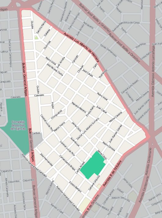 Street map of Larrañaga, Montevideo, exported from OpenStreetMap. I added shading to delimit the barrio. This map may be incomplete, and may contain errors. Don't rely solely on it for navigation.